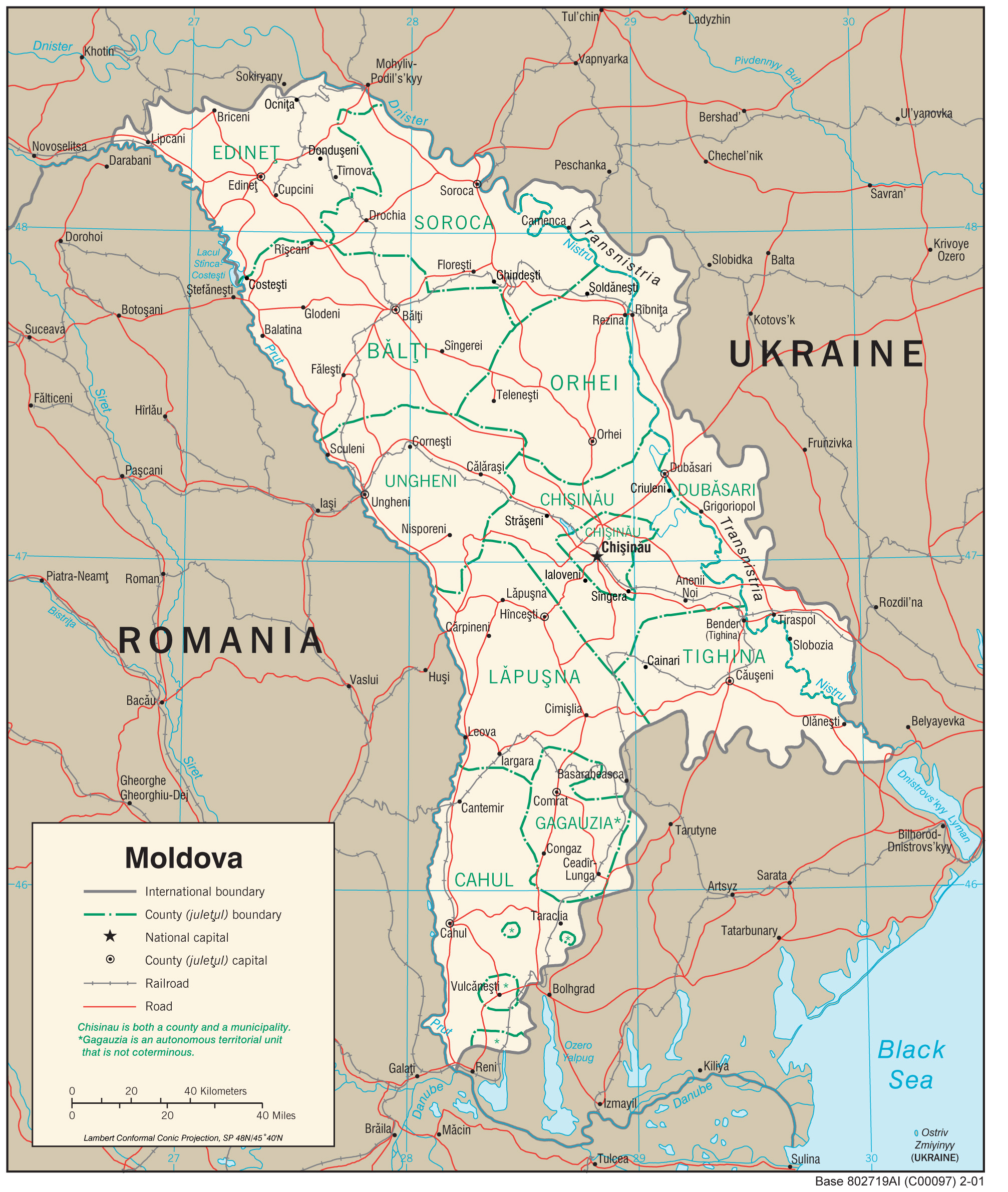 Transport system in Moldova, 2001.